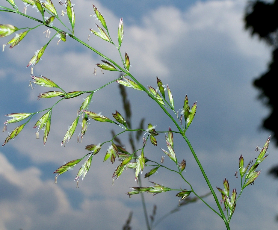 meadow fescue, meadow ryegrass (Anther 3 mm long.)